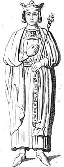 Henry the Young King